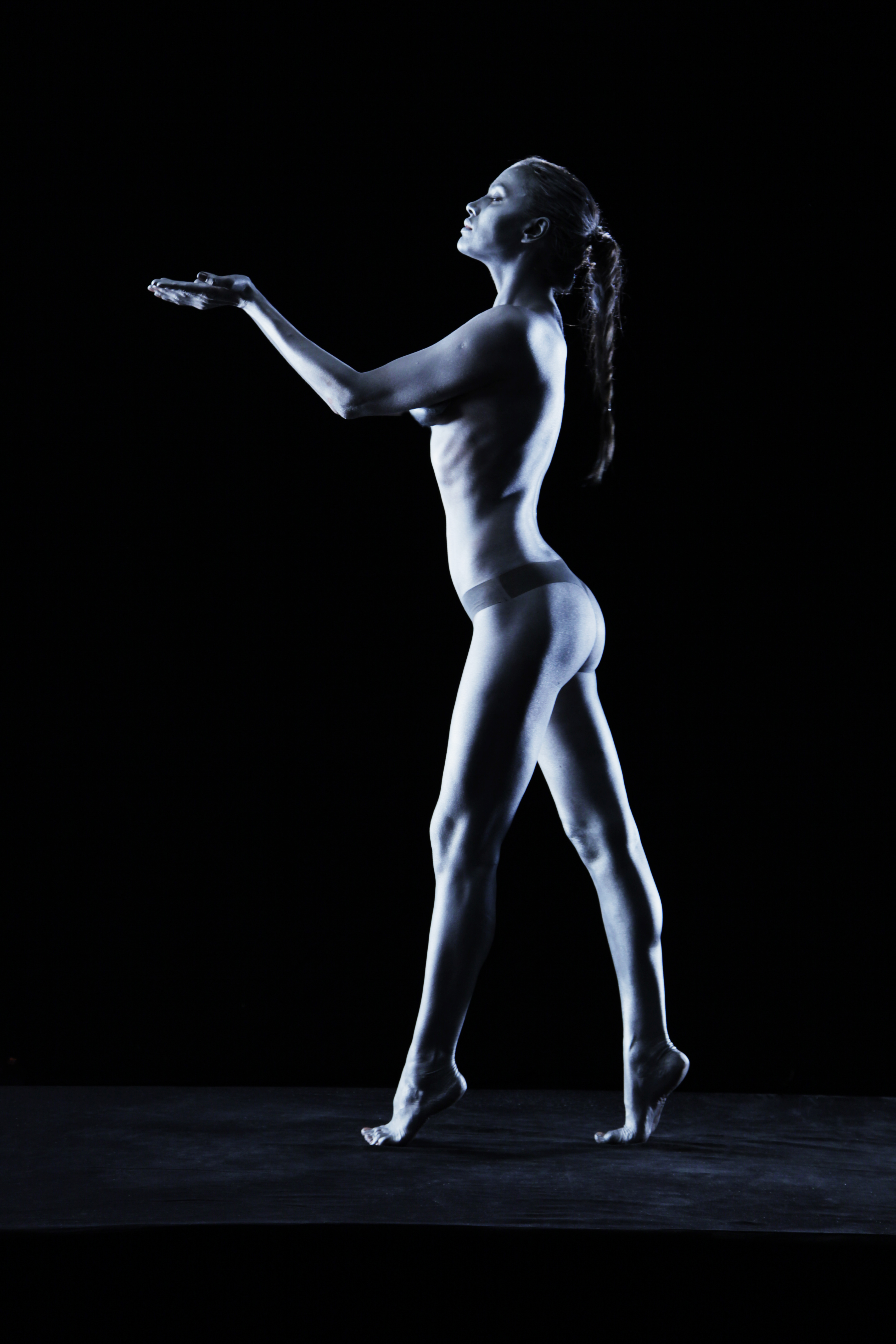 Portrait study